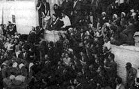 Khomeini speaking to his followers the ahsura day June 3, 1963